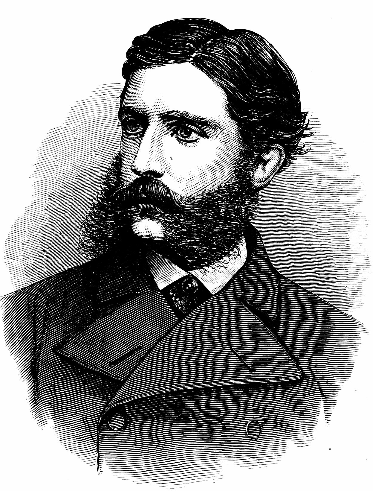 Scan of the frontispiece of "The poetical works of Edmund Clarence Stedman, 3rd Edition" by Edmund Clarence Stedman. Scans of whole book are available at